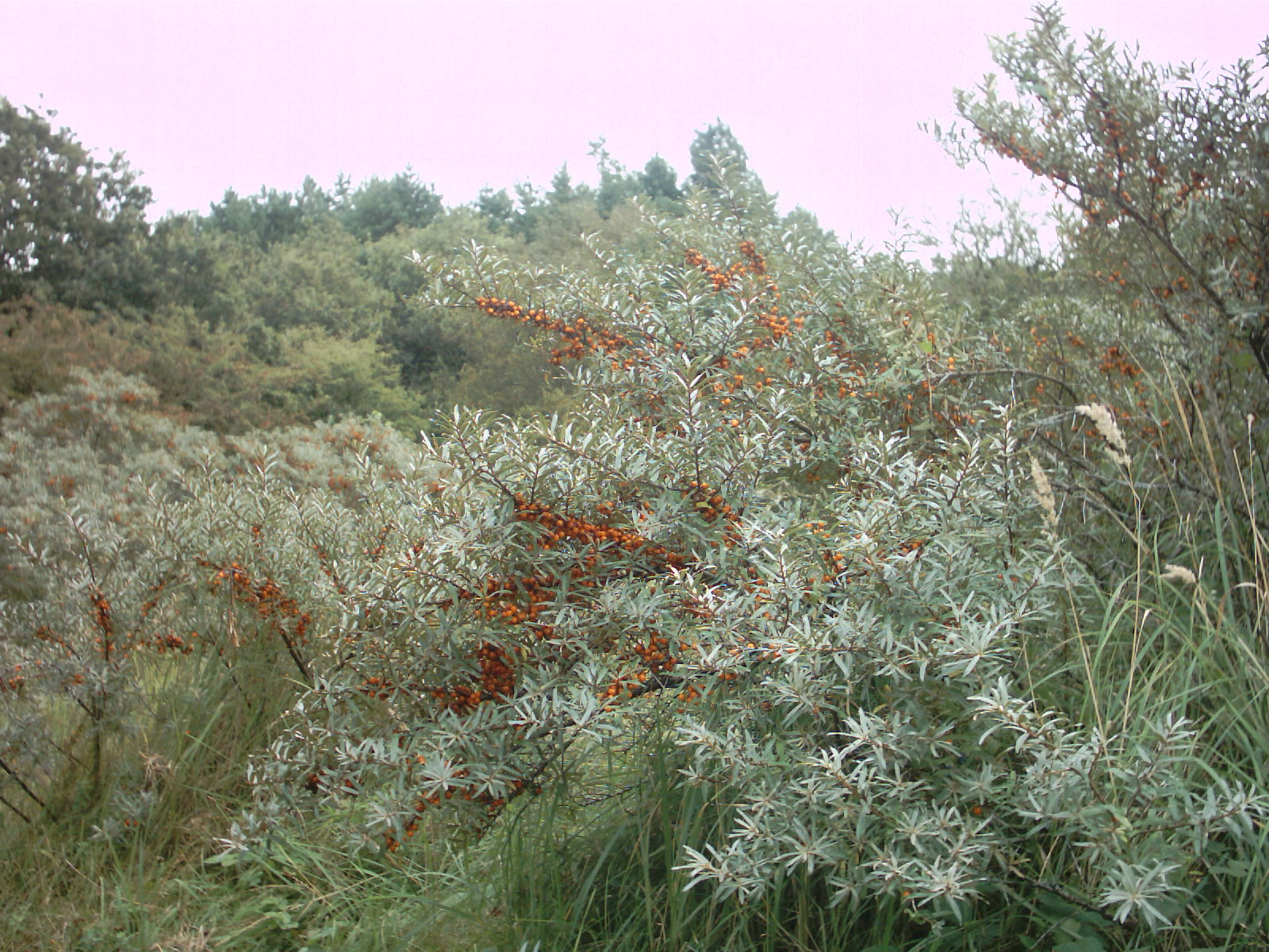 Hippophae rhamnoides in the Kennemer dunes.